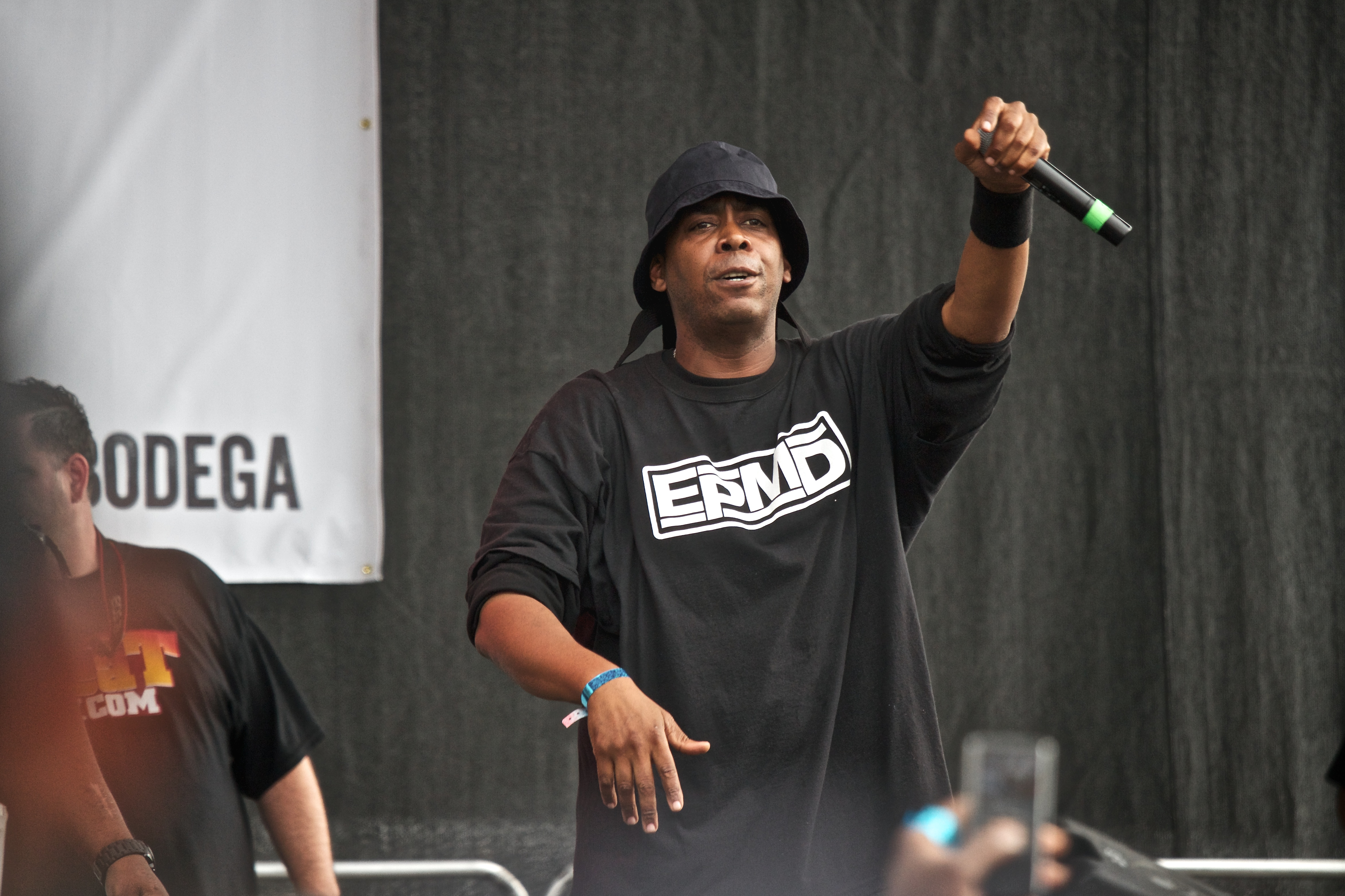 EPMD at Brooklyn Hip-Hop Festival 2013